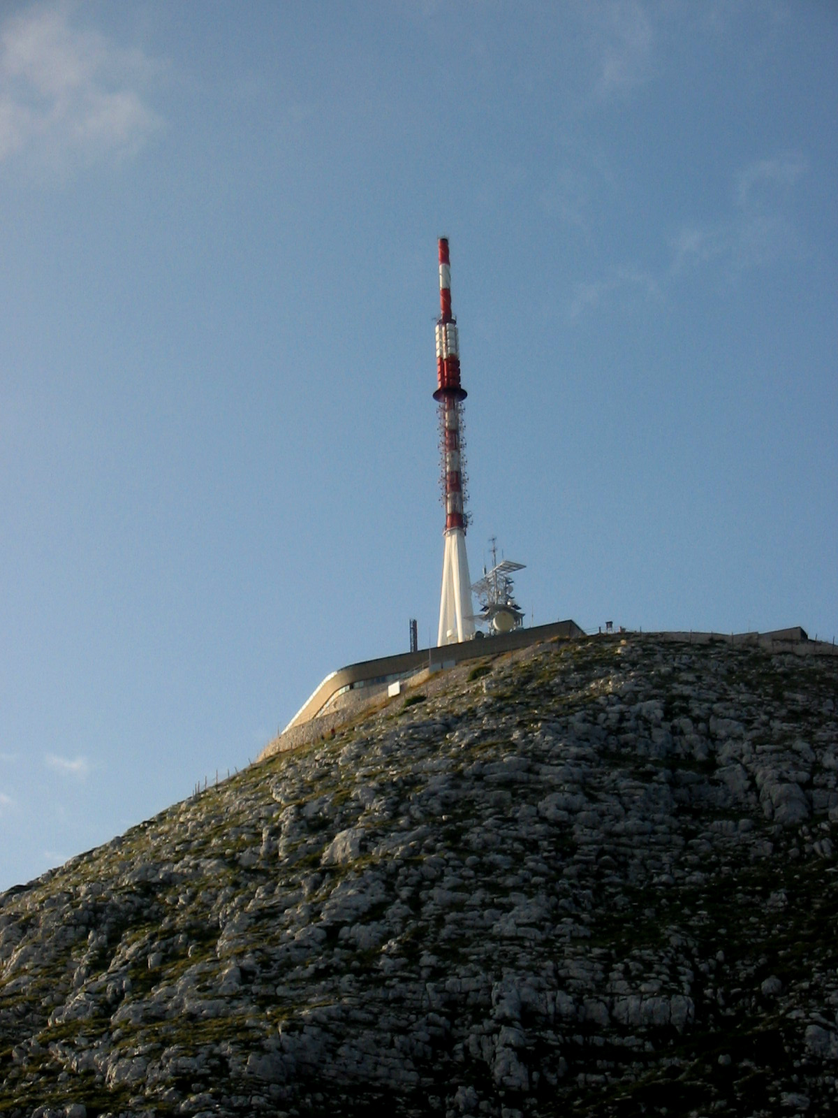 Sveti Jure (Saint George), the highest peak (1762 m) of Biokovo mountain.